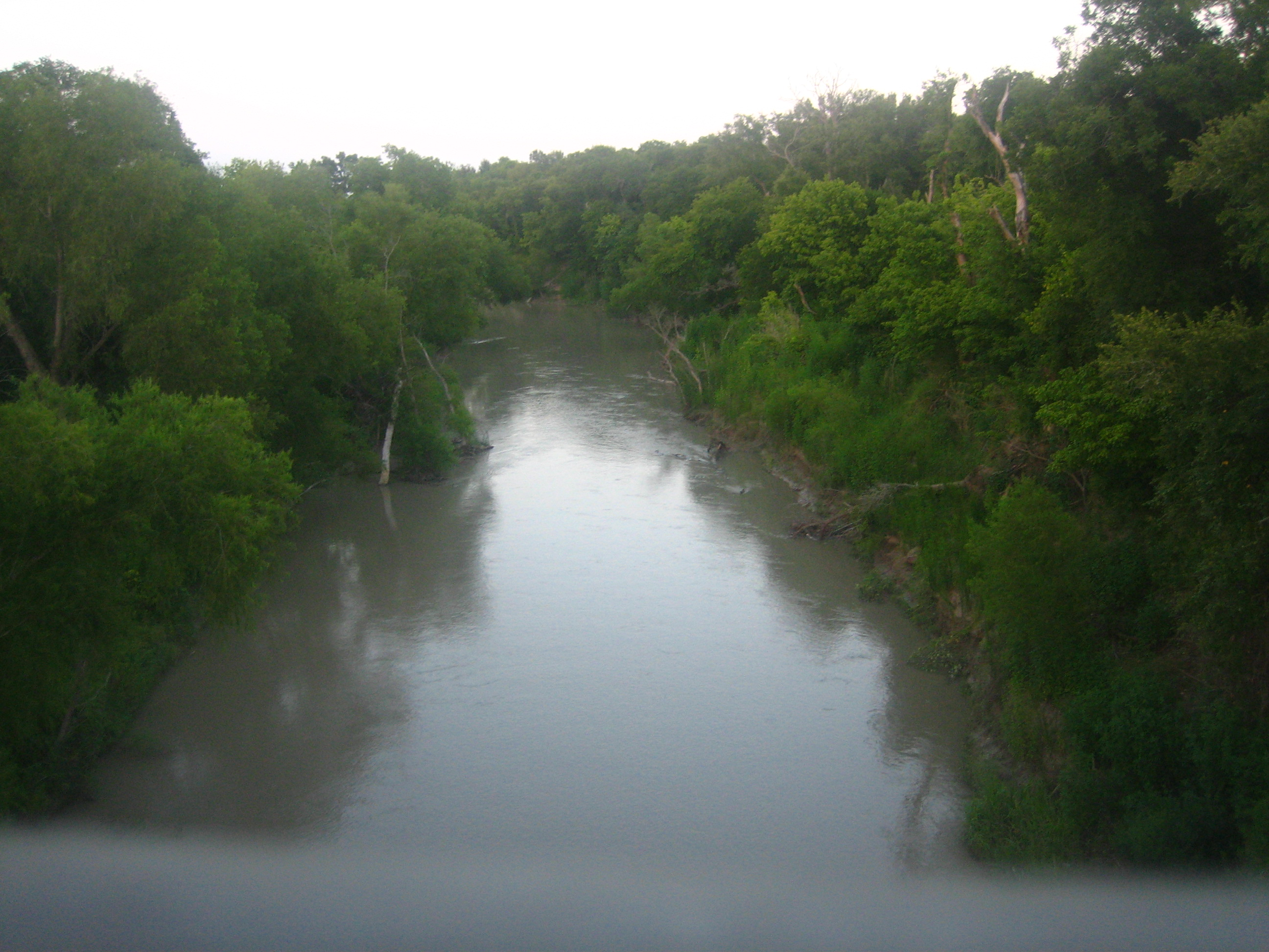 I took photo on July 30, 2008.Billy Hathorn (talk) 03:13, 8 September 2008 (UTC)